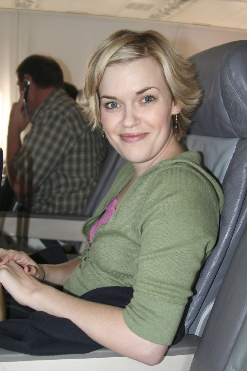 American voice actress Kari Wahlgren.